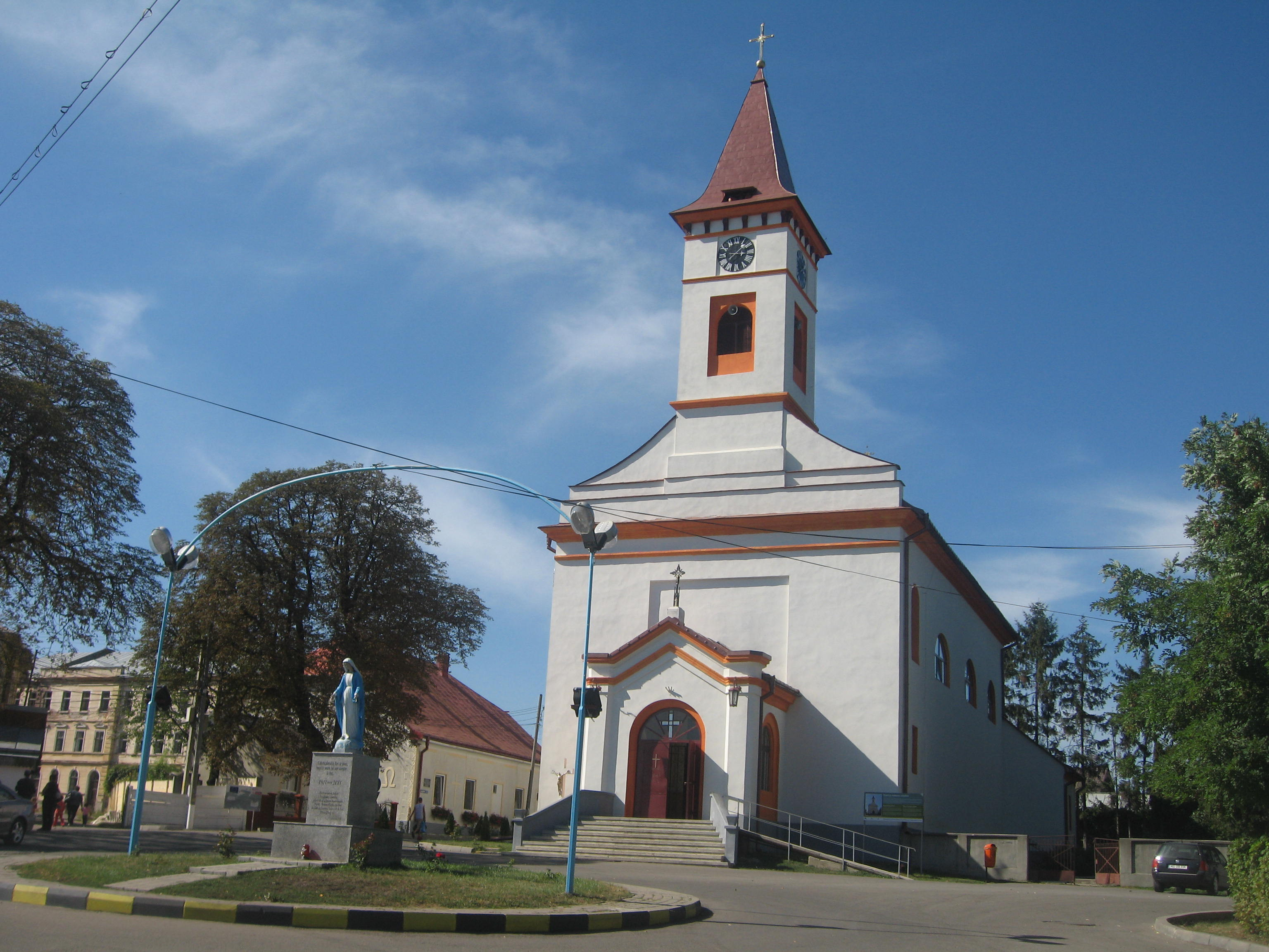 St. Mary Church in Siret, Romania, built in 1826